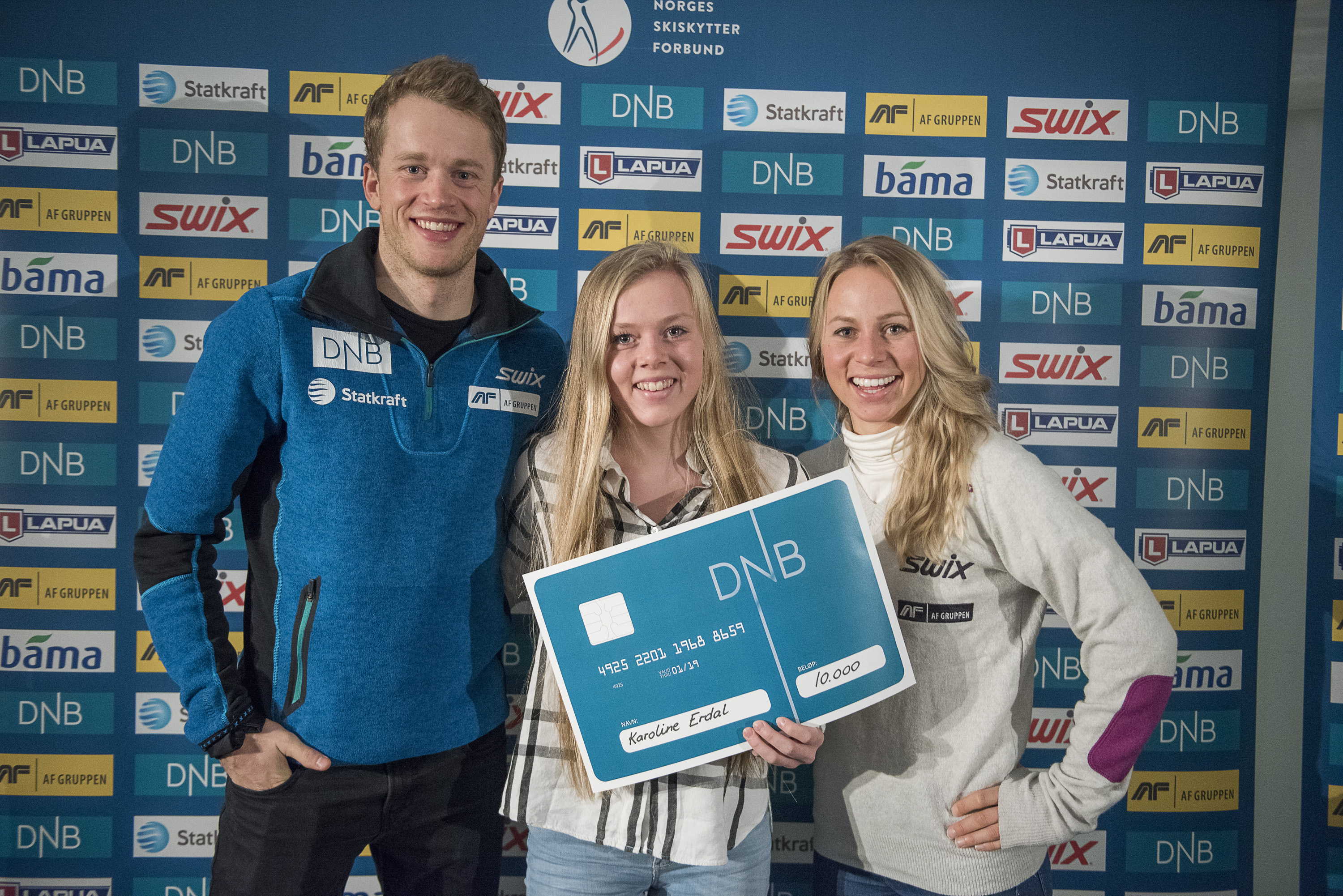 Karoline Erdal (center), Norwegian biathlete, receiving av scholarship in 2015. To the left, Norwegian biathlete Tarjei Bø, and to the right Norwegian biathlete Tiril Eckhoff.